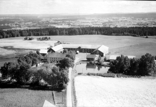 A rather large farm in Stange kommune, Norway. Photo from 1947.